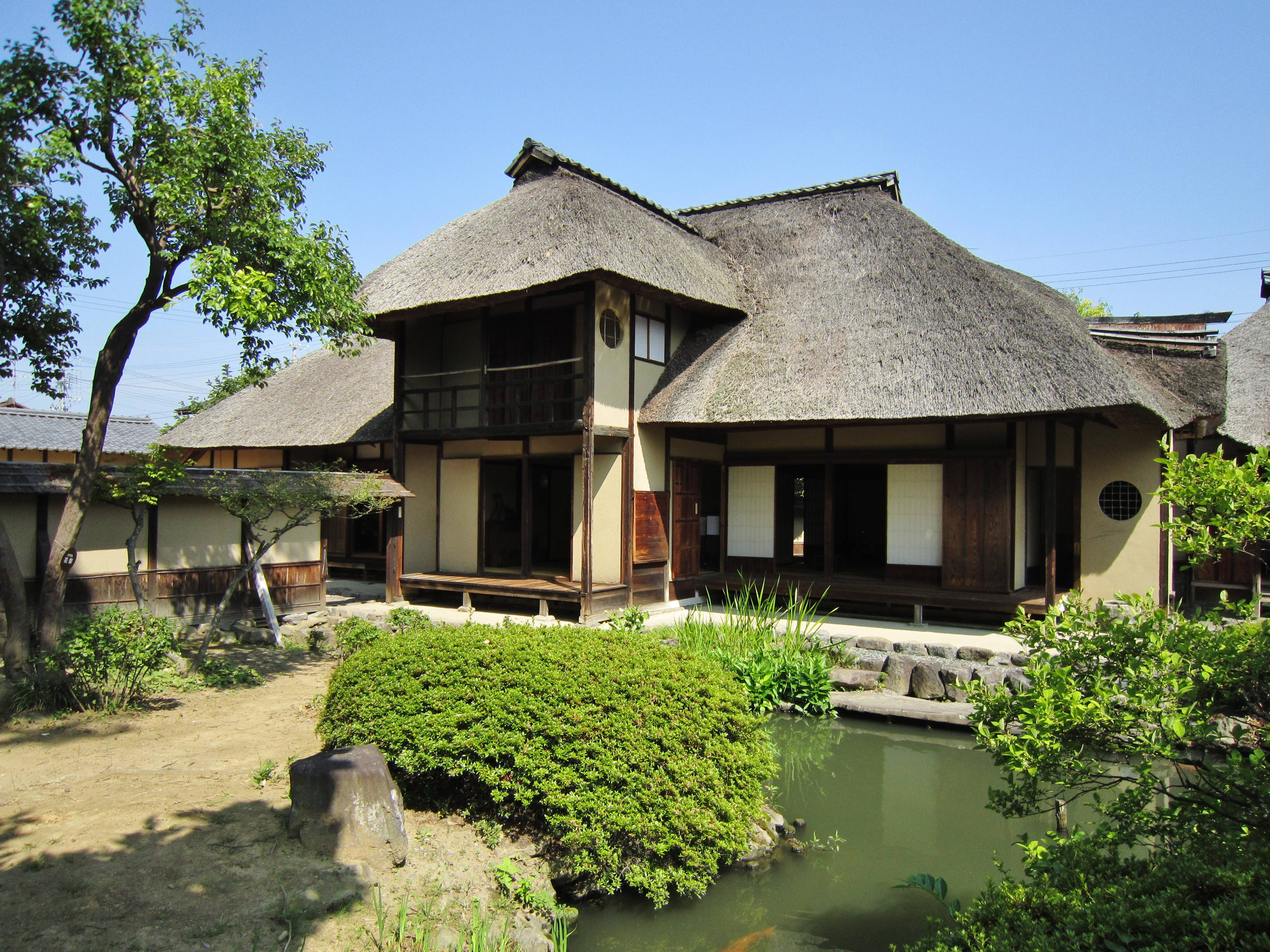 Former Yokota Residence.